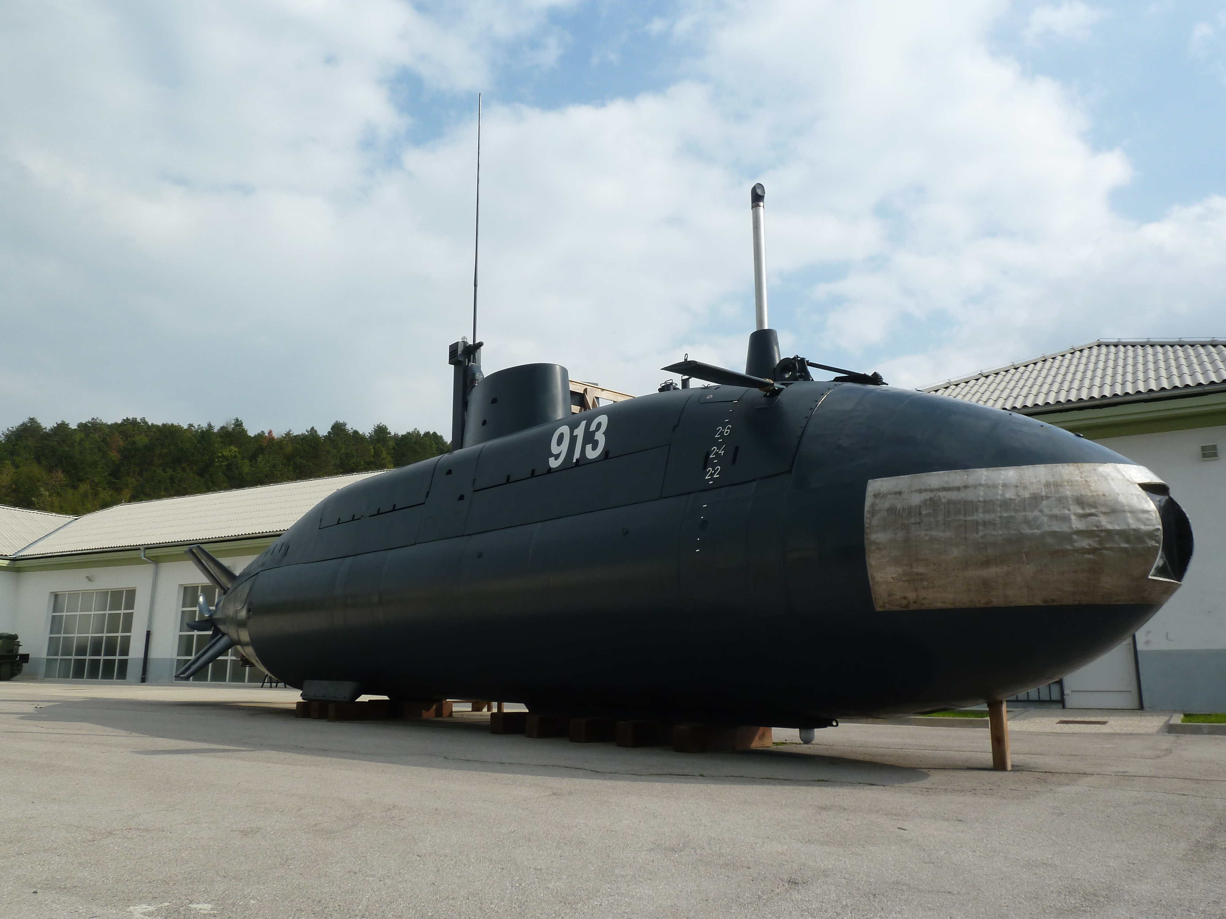 Mini Submarine, Park of Military History, Pivka, Slovenia